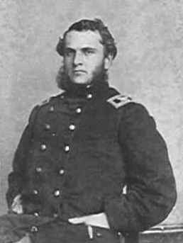 Strong Vincent (1837 – 1863), lawyer and U.S. Civil War army officer.